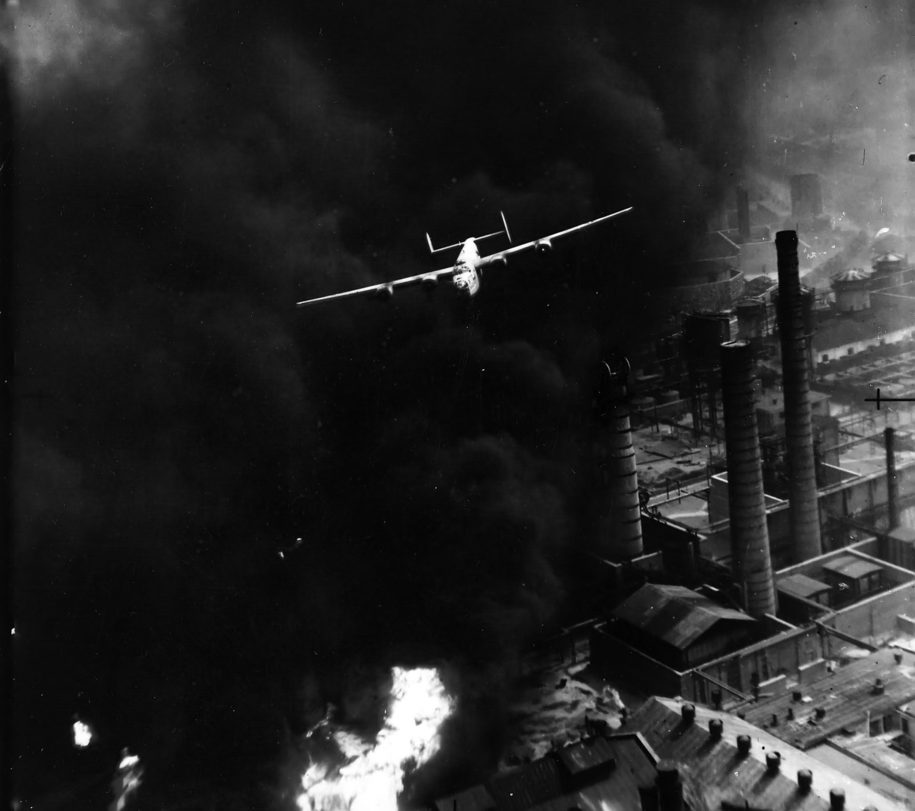 Captions and Titles from Published Works 2003: One of the most famous images of World War II shows The Sandman, piloted by Robert Sternfels, as it emerges from a pall of smoke during the TIDALWAVE mission.[1] 2002: The Sandman barely clears the stacks of the Astra Romana refinery.[2] 1944 (unreversed):Note 1 HITLERS NO. [sic] 1 oil source, Ploesti, Rumania, was bombed Aug. 1, 1943, by a large force (177) of B-24s which came in at smokestack level, braved oil and bombs exploding close beneath them to hit refineries, tanks, cracking plants. 53 aircraft and 660 air crewmen were lost.[3]